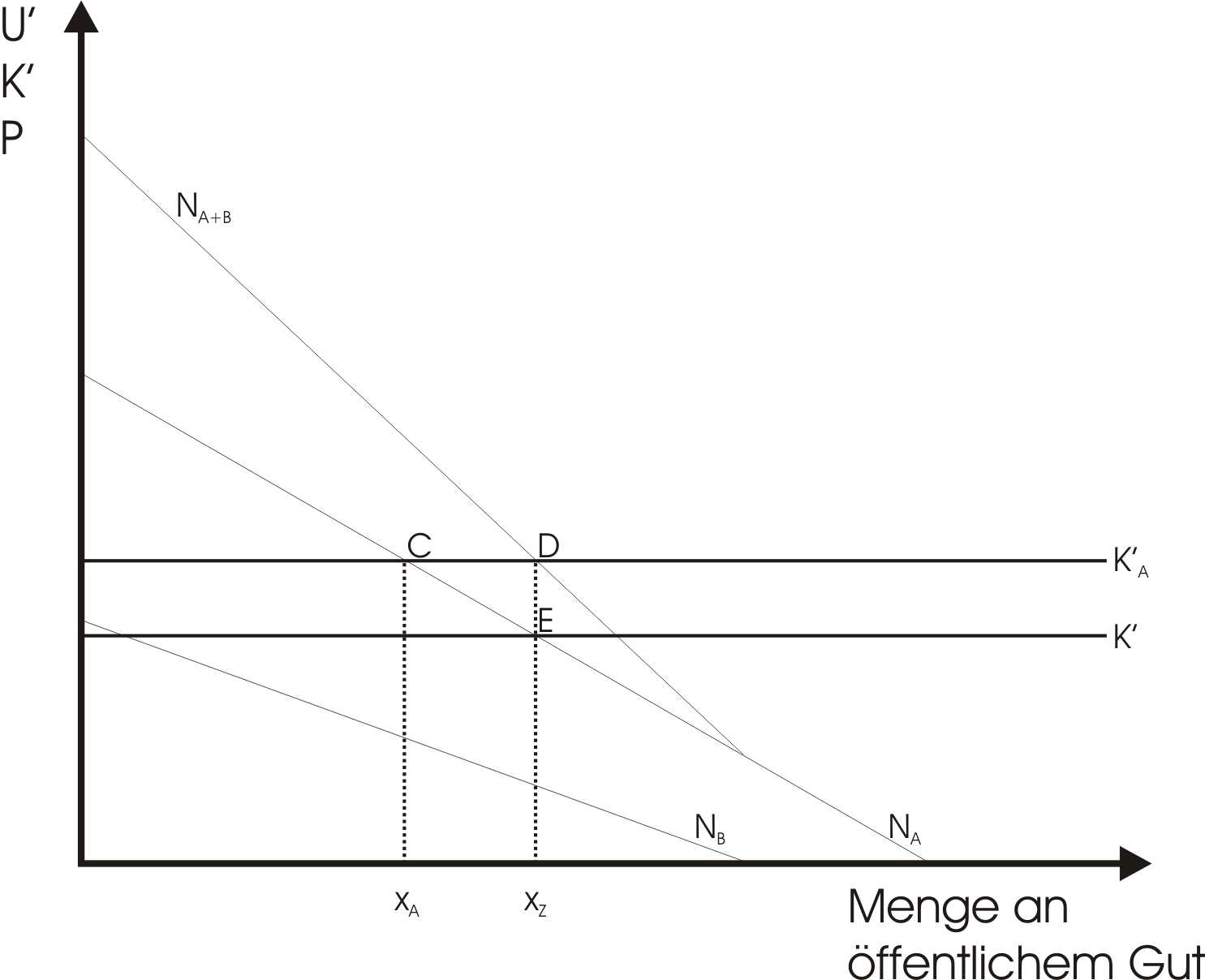 Decentralisation-Theorem part III.